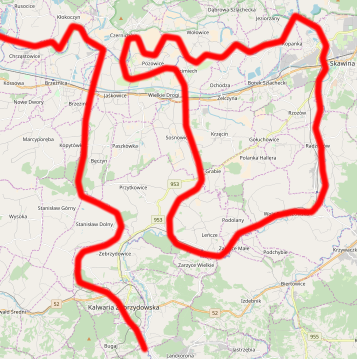 eastern borders (red) of the duchy of Oświęcim/Auschwitz with the enclave of Krzęcin (before) imposed on modern map